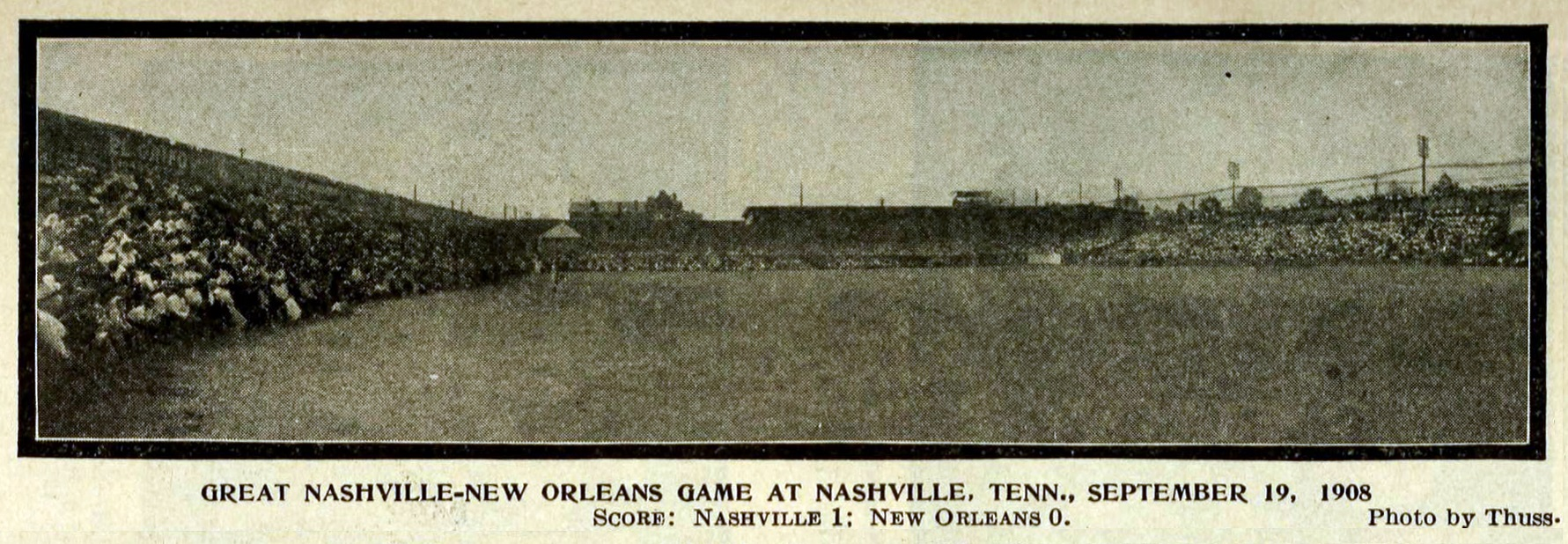 A baseball game at Sulphur Dell, a minor league baseball park in Nashville, Tennessee, between the Nashville Vols and New Orleans Pelicans on September 19, 1908. The Vols won the Southern Association pennant by winning the game, 1–0.